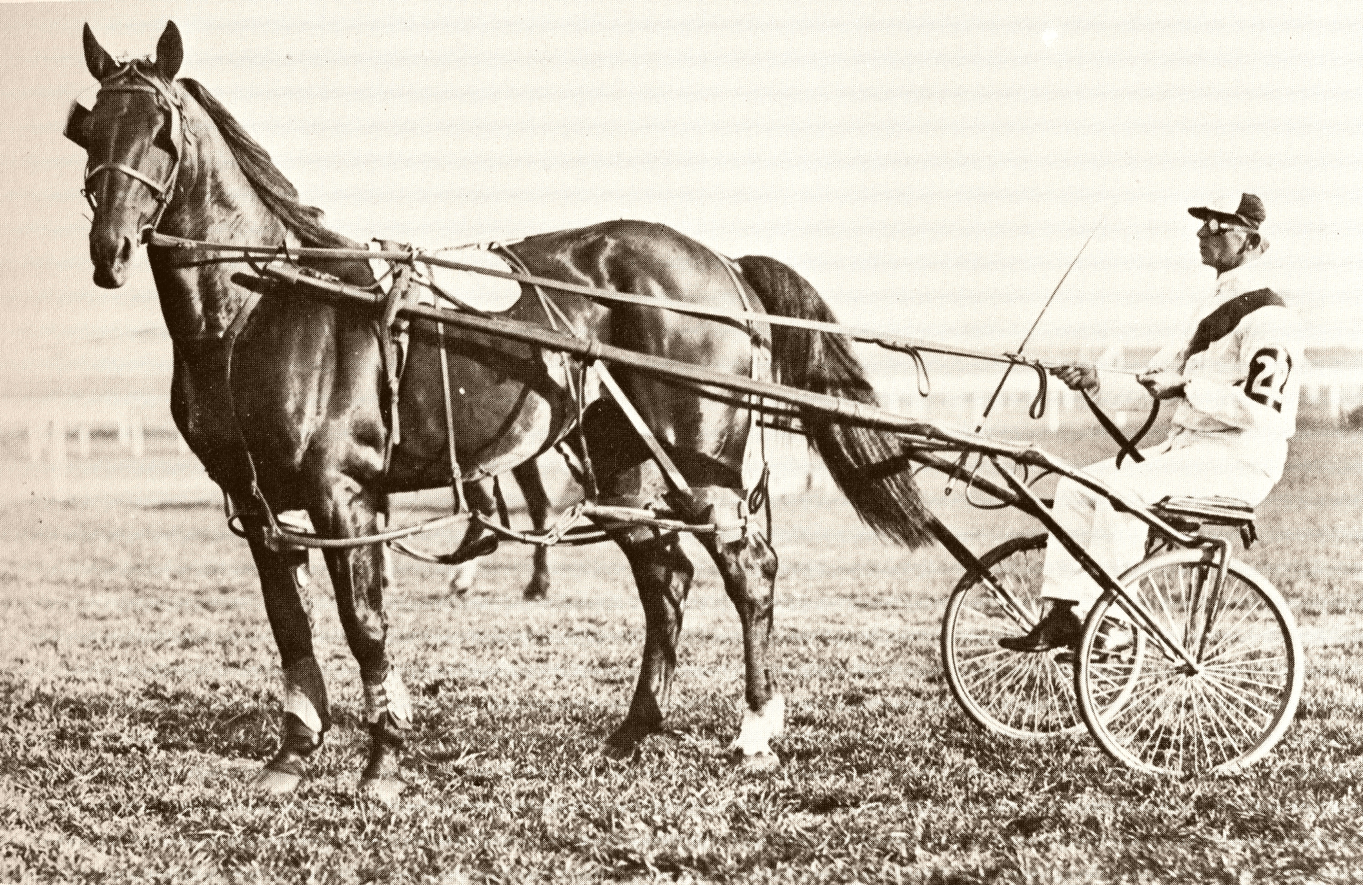 Globe Derby (AUS), a champion pacer and a Leading Australian Sire